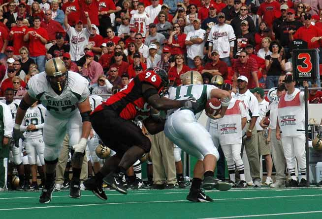 Keyunta Dawson. From Texas Tech Red Raiders vs Baylor Bears in 2004.